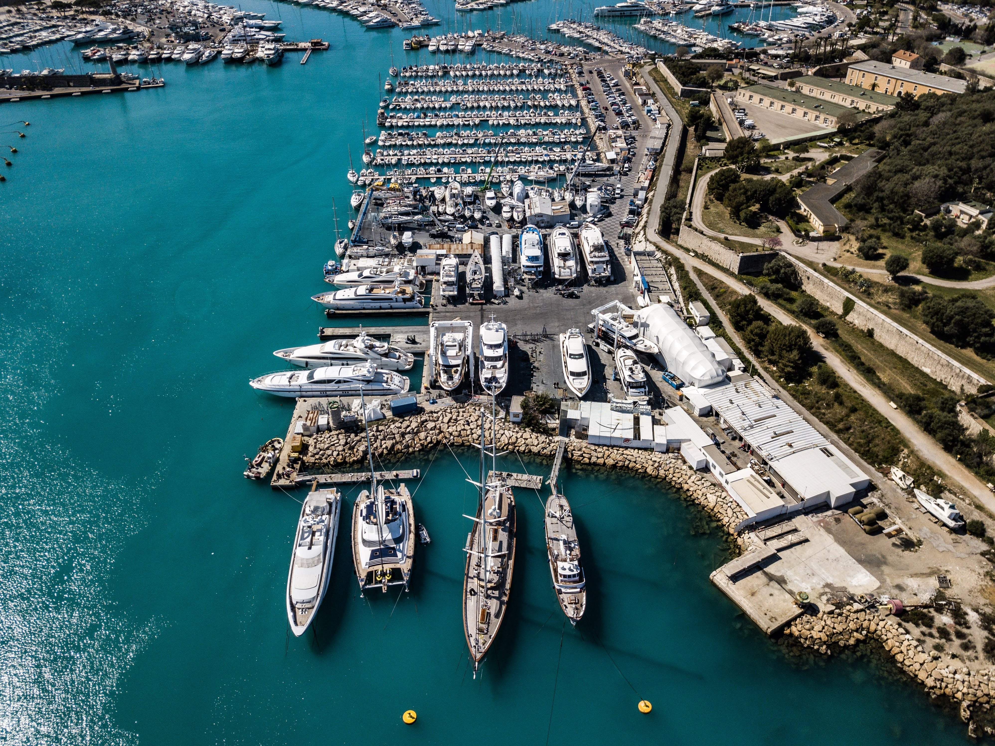 Monaco Marine shipyard in Antibes